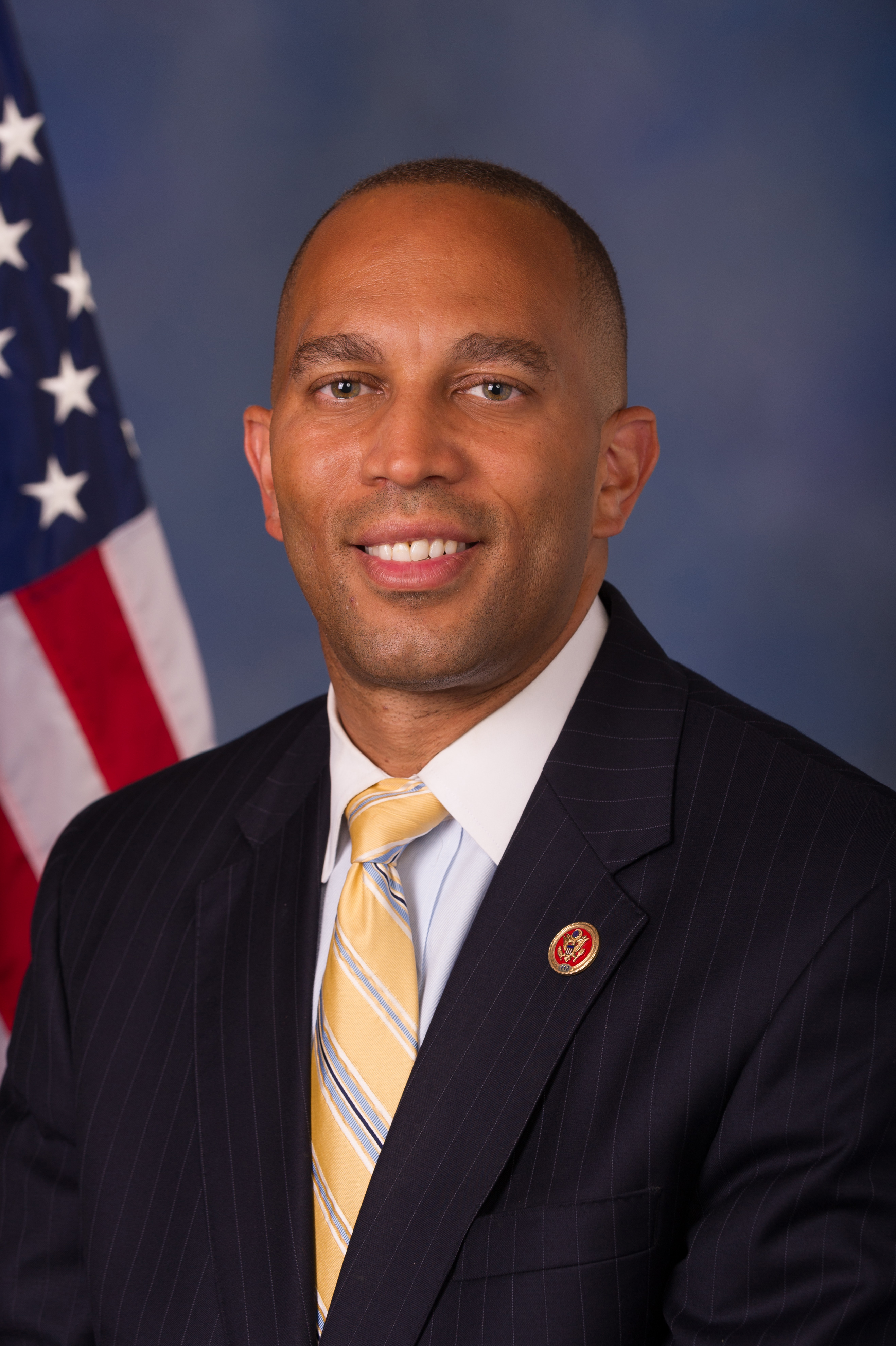 United States Congressman Hakeem Jeffries